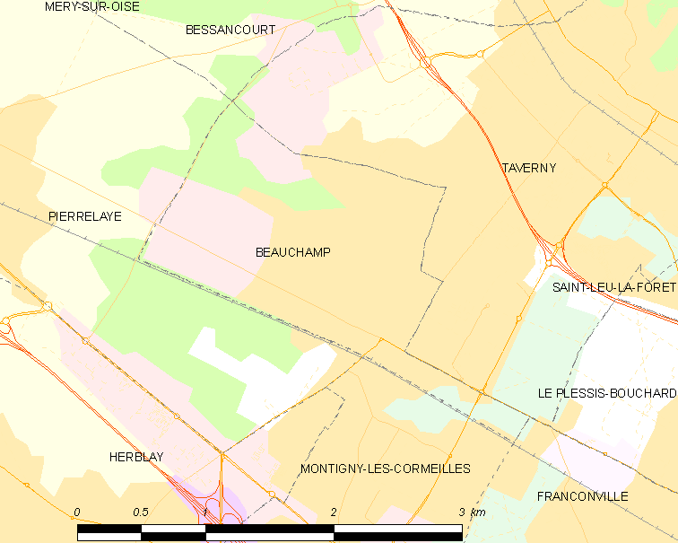 Map of French municipality Beauchamp